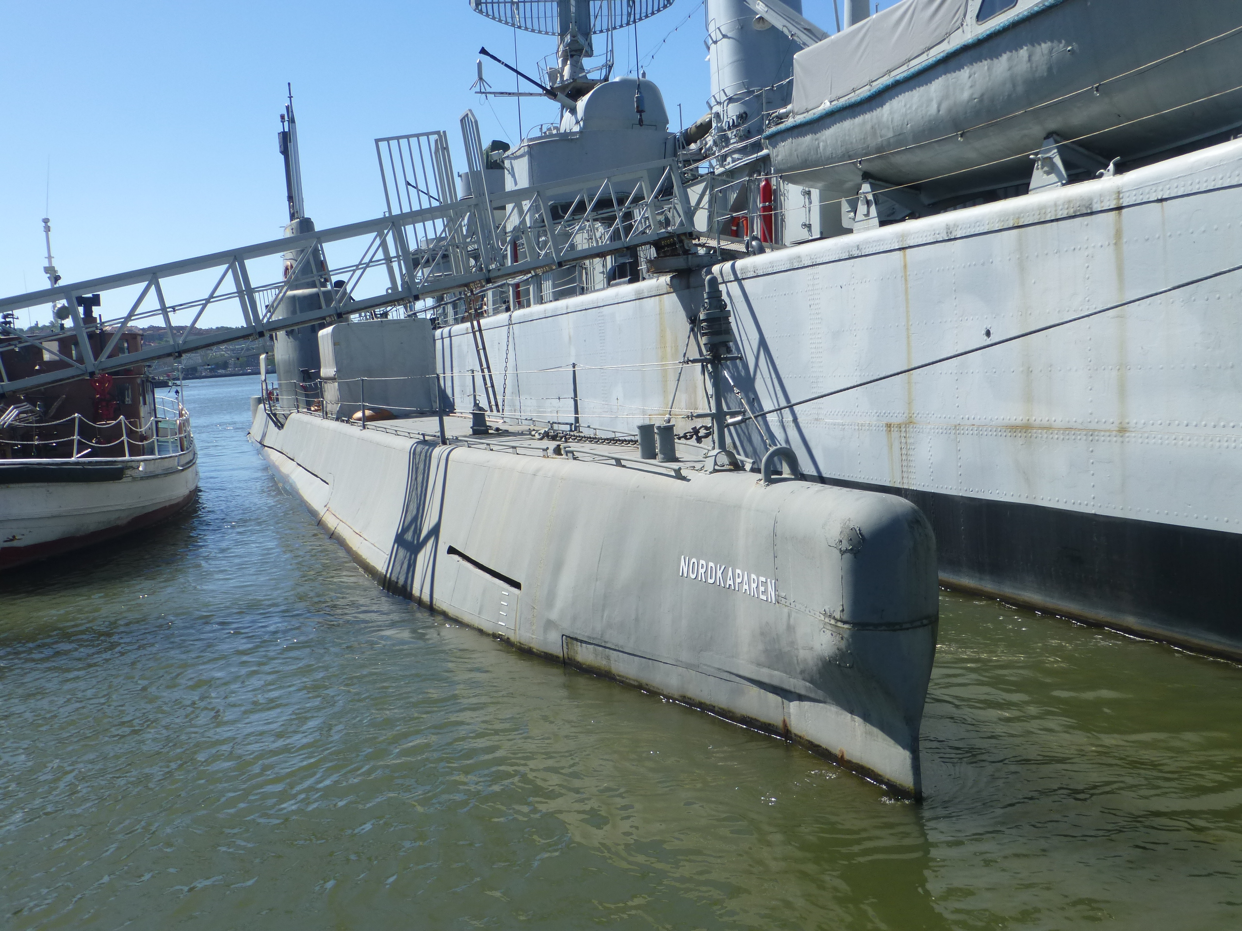 The submarine HMS Nordkaperen from 1961 at the naval museum Maritiman in Göteborg.